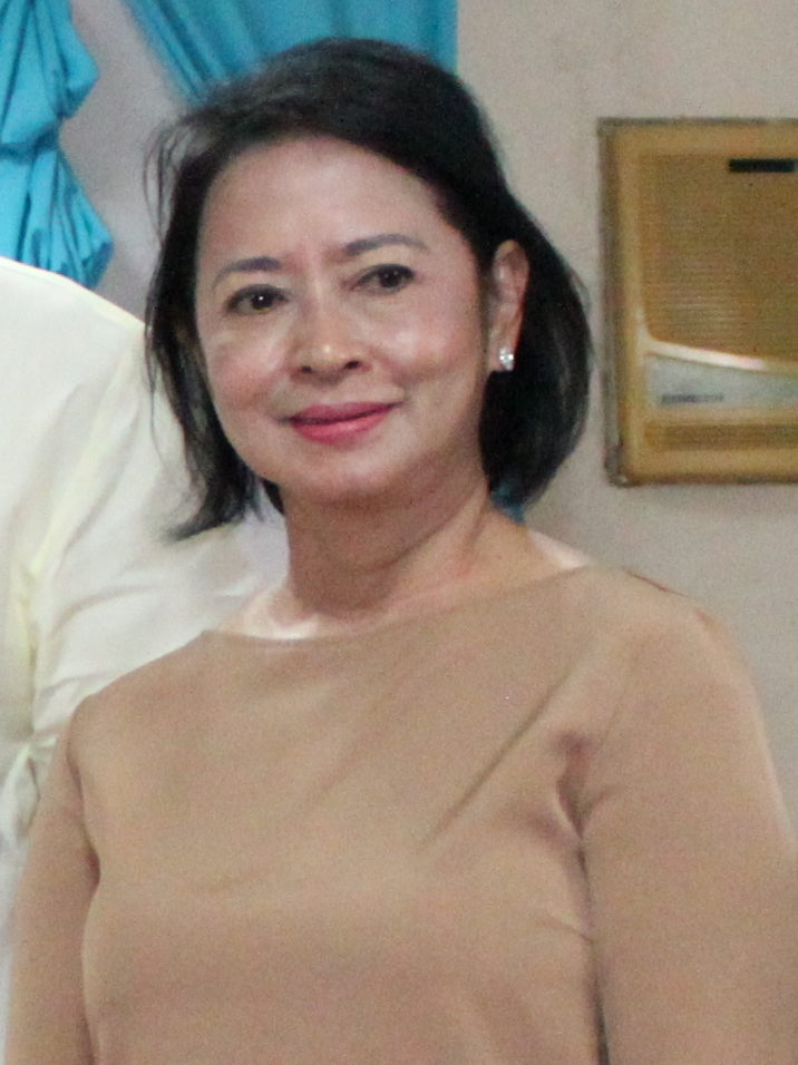 Congresswoman Josephine Ramirez-Sato